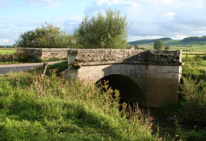 Bridge Fishing in the plain of Removille .